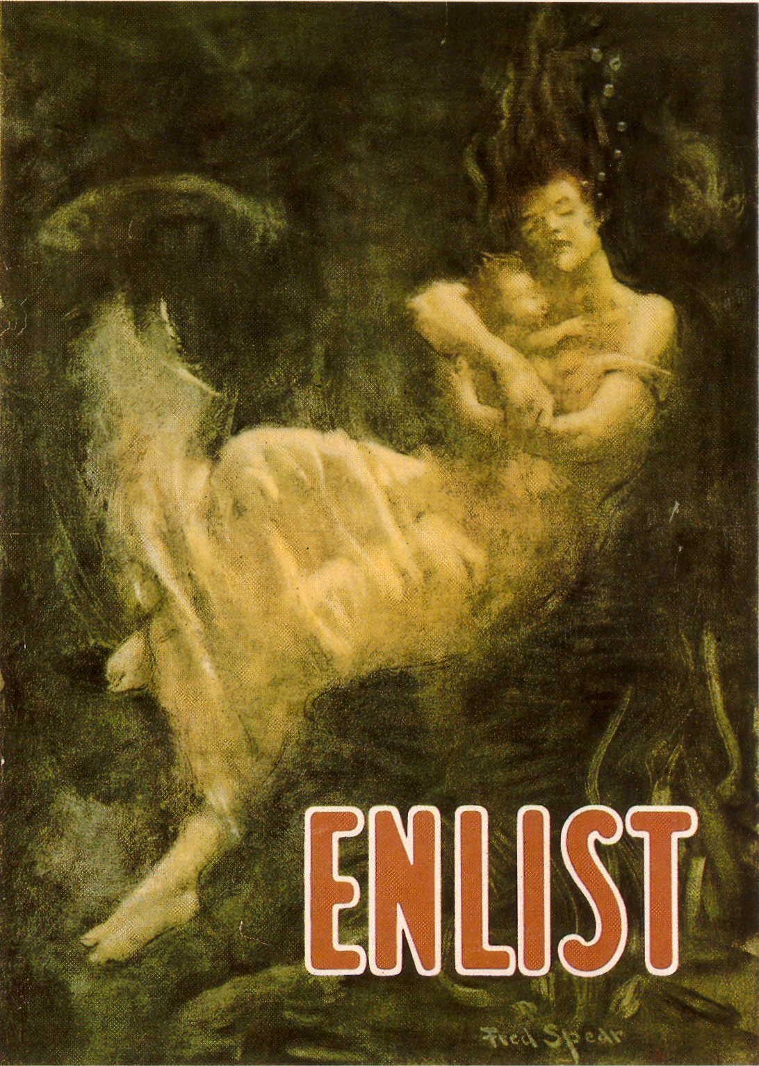 This poster was published in June 1915 by the Boston Committee of Public Safety, after the sinking of the Lusitania by a German U-boat attack. More than a thousand civilians were lost, 128 of them American. Spear's poster recalls the drowning of a mother and child. Without the particular occasion and the word 'Enlist,' the dreamlike image of two figures under the sea would arouse no strong response. - [1]